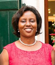 Martine Moïse, First Lady of Haiti, attends an American Chamber of Commerce in Haiti on December 13, 2018.